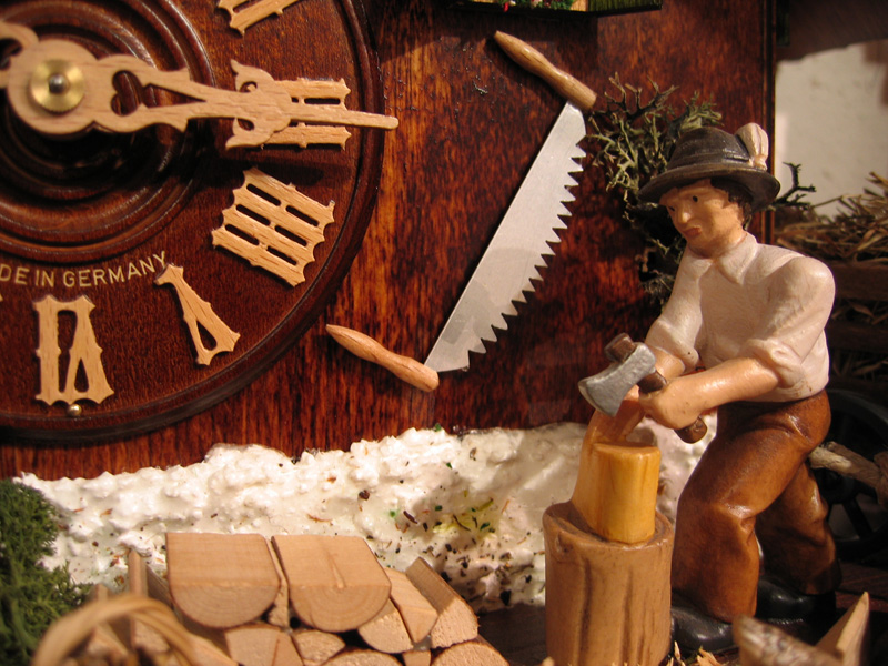 I took this picture myself on January 15, 2005.